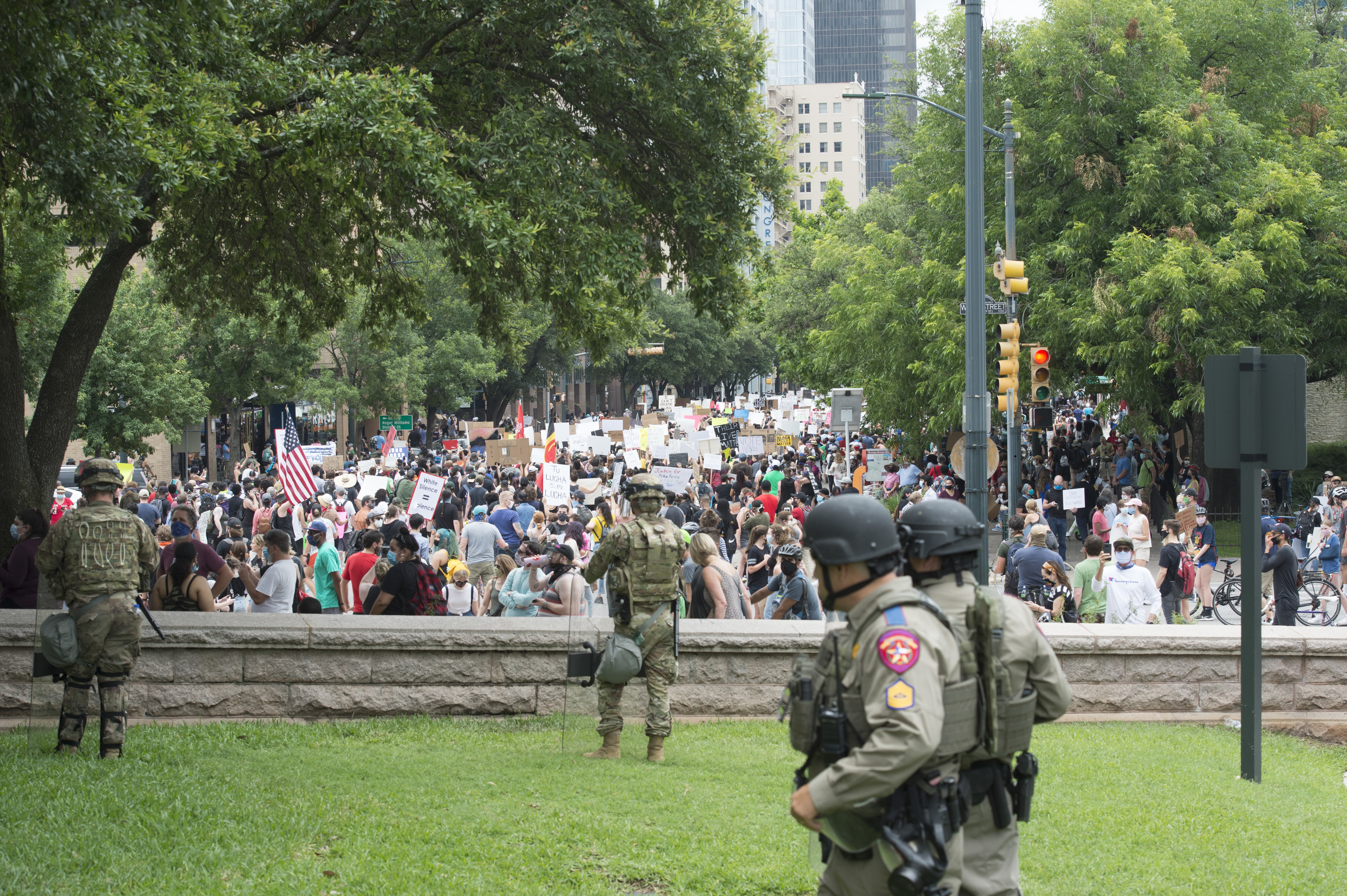 Military police Soldiers attached to the Texas Army National Guard's 136th Maneuver Enhancement Brigade support local law enforcement during a protest in Austin, Texas, on May 31, 2020. On May 30, 2020, Governor Greg Abbott activated elements of the Texas National Guard to augment law enforcement throughout the state in response to civil unrest. The Texas National Guard will be used to support local law enforcement and protect critical infrastructure necessary to the well-being of local communities. (U.S. Army photo by Charles E. Spirtos)